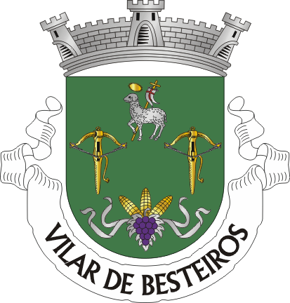 Crest of Vilar de Besteiros parish, Tondela municipality (Portugal)